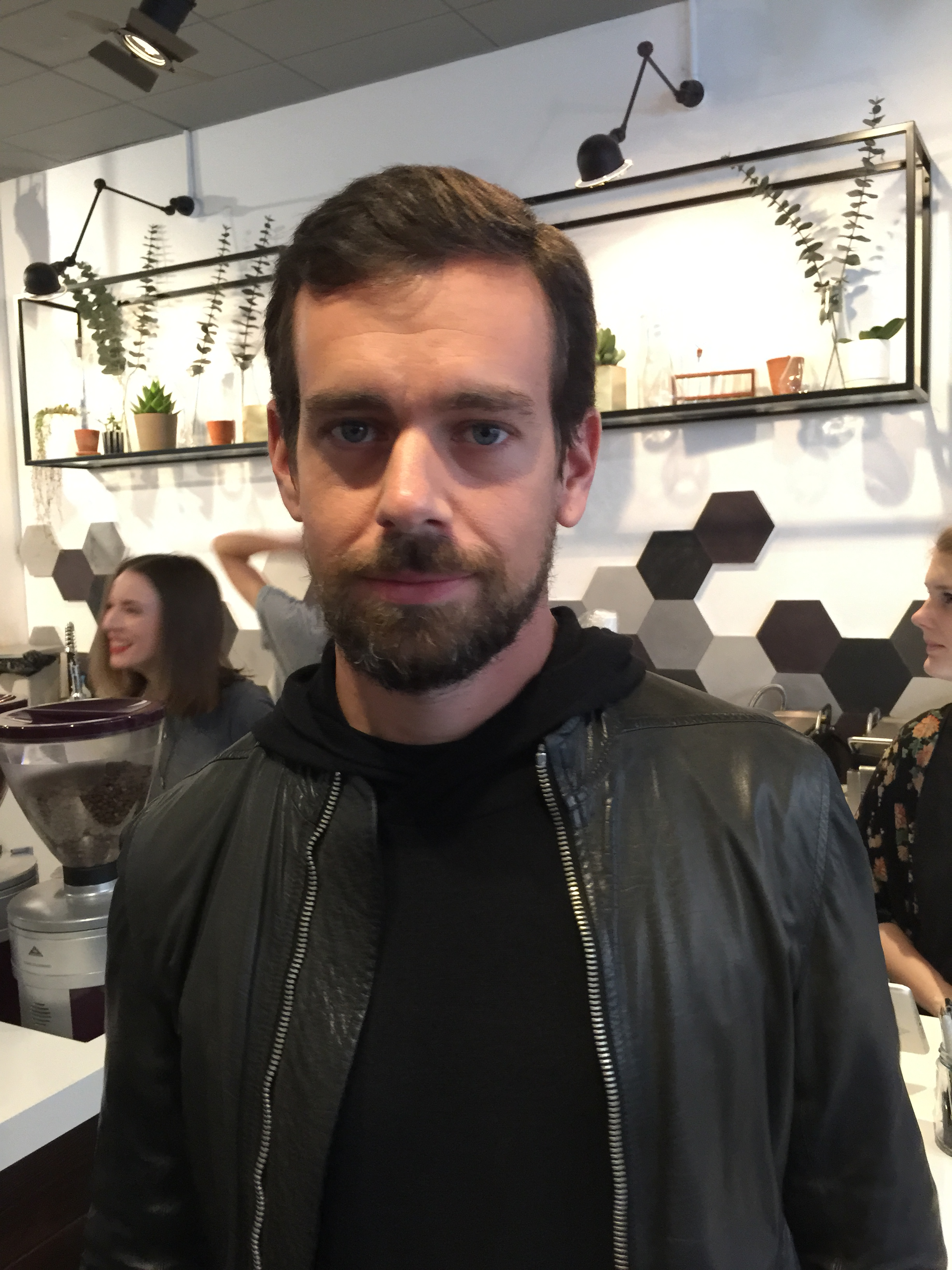 Jack Dorsey, Twitter and Square founder, in a London cafe in November 2014.